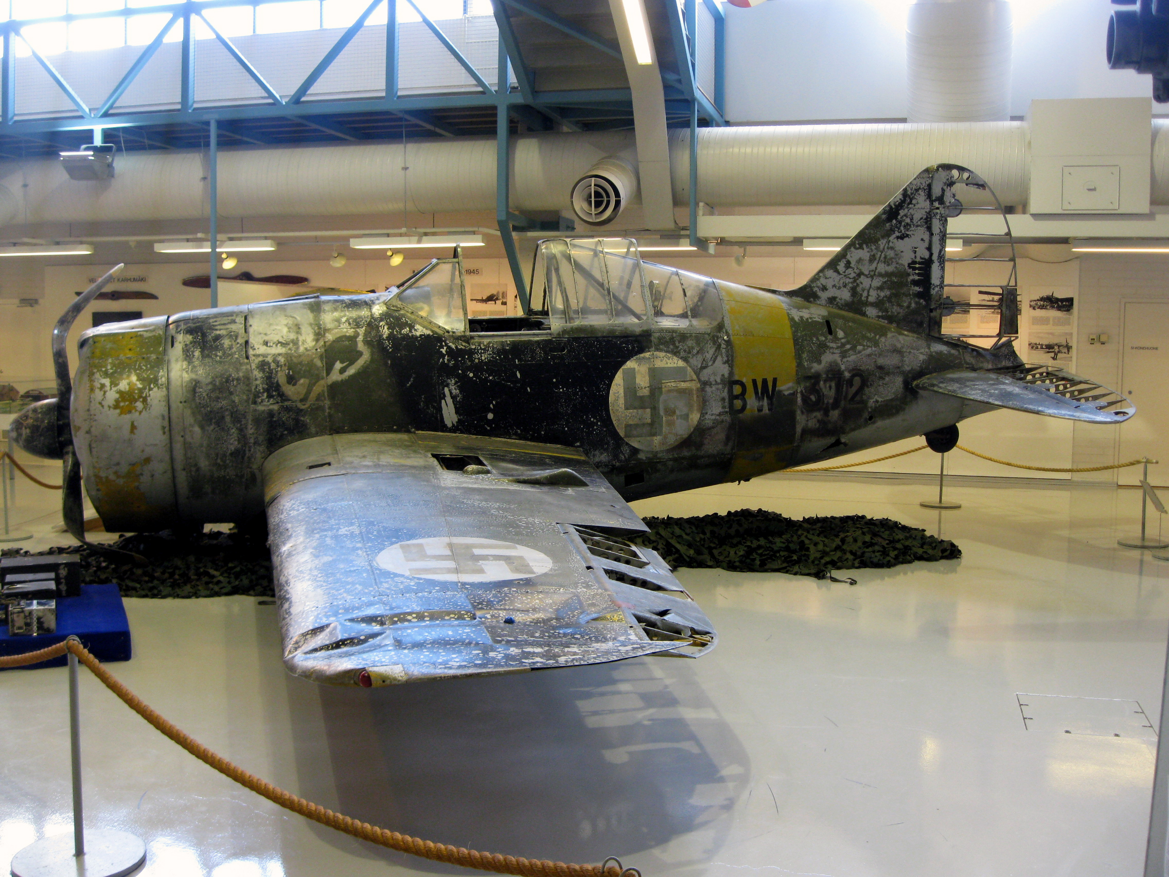 Brewster Model 239 (BW-372) in Aviation Museum of Central Finland.